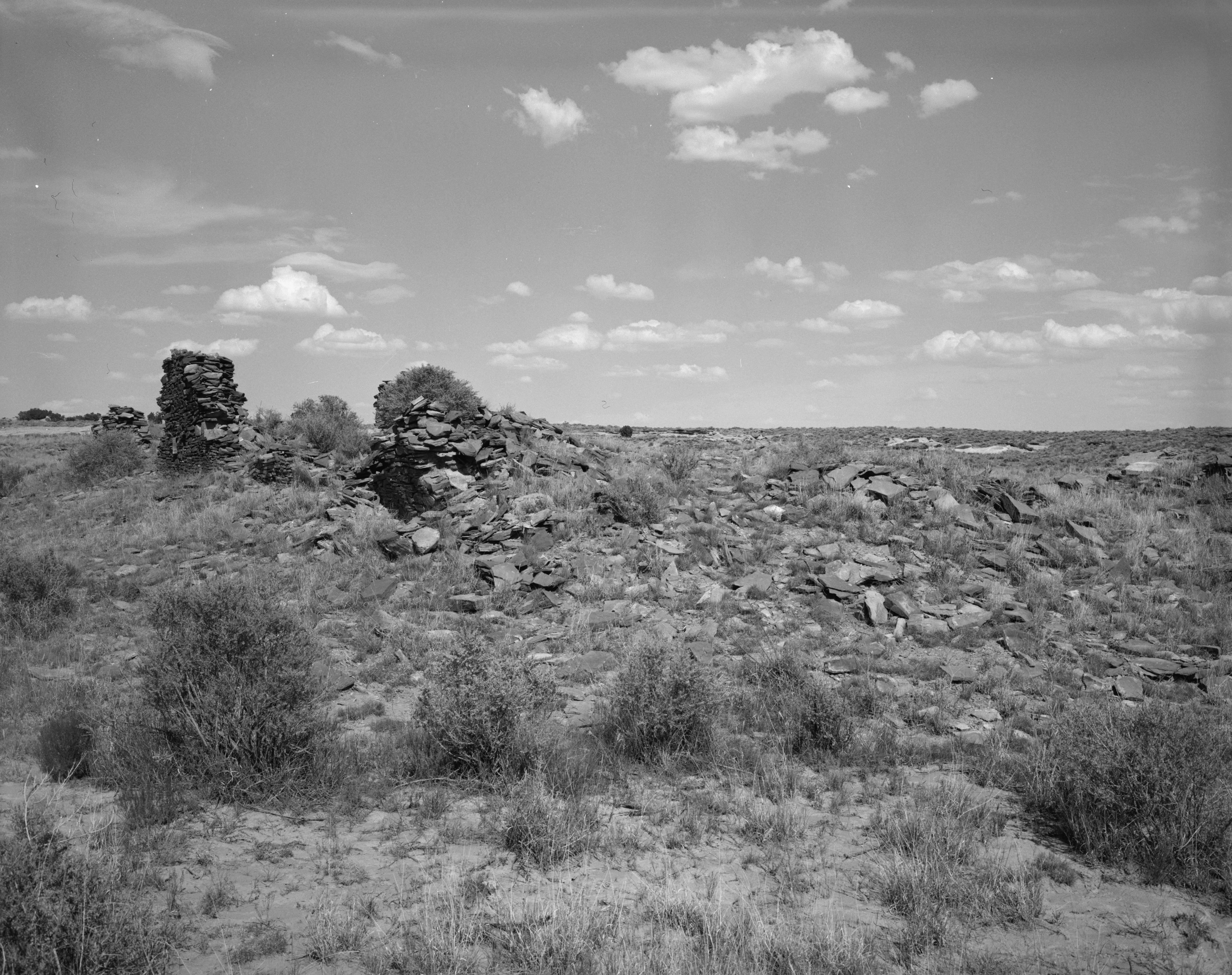 Ruins at the Bee Burrow Archeological District, located along Seven Lakes Wash north of Crownpoint in central McKinley County, New Mexico, United States. The remnants of a settlement of the Anasazi, it is listed as a historic district on the National Register of Historic Places.